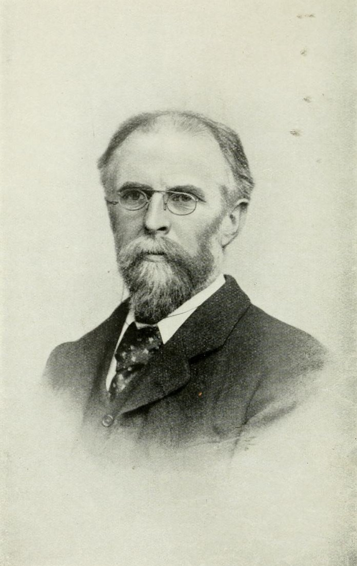 James Sully